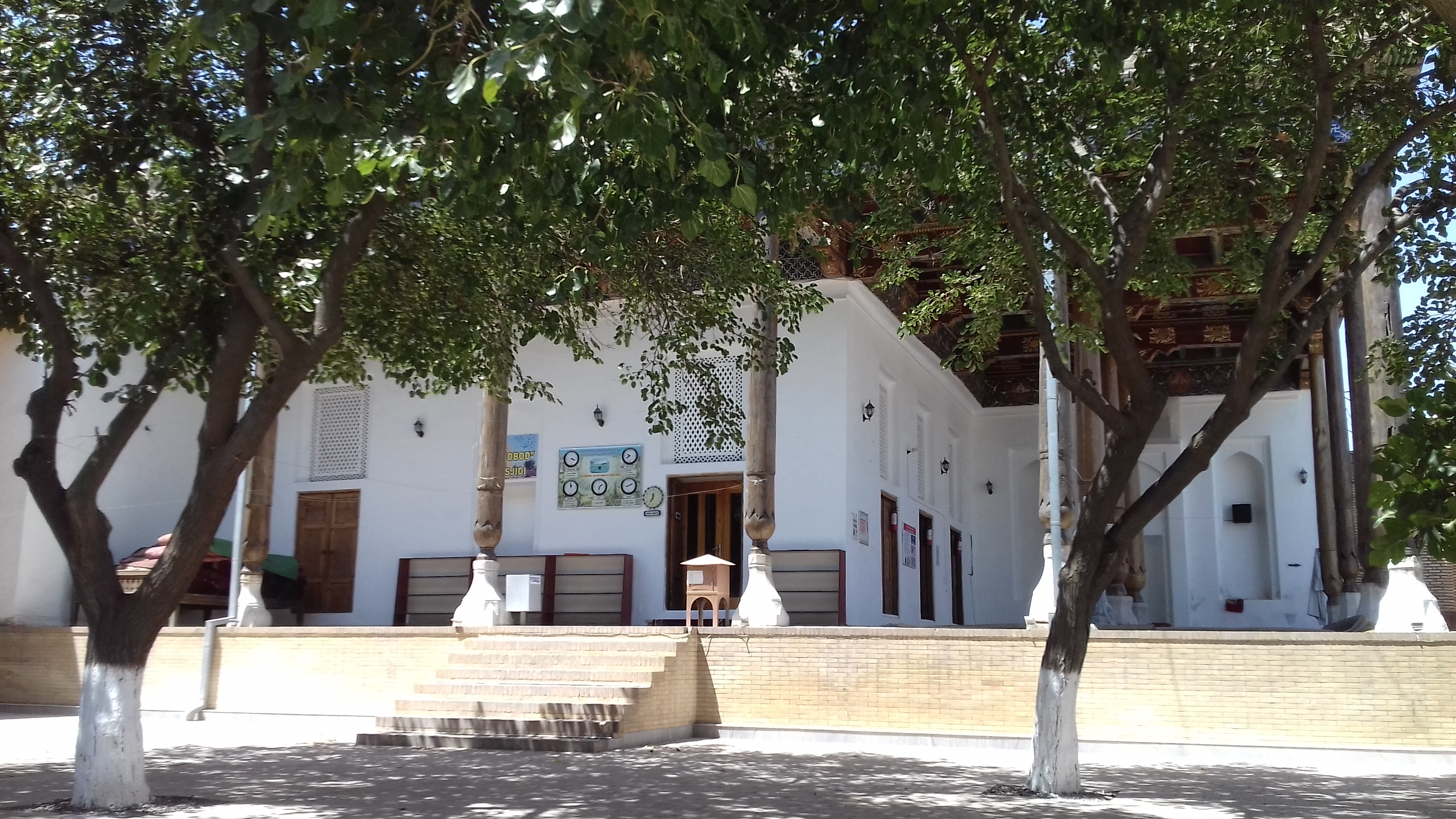 Ruhabad Mosque in Samarkand (Uzbekistan)